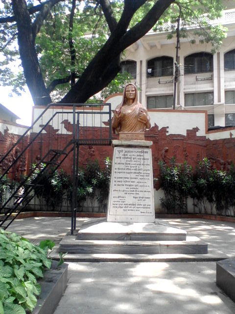 Savitri Bai Phue Chwok pune